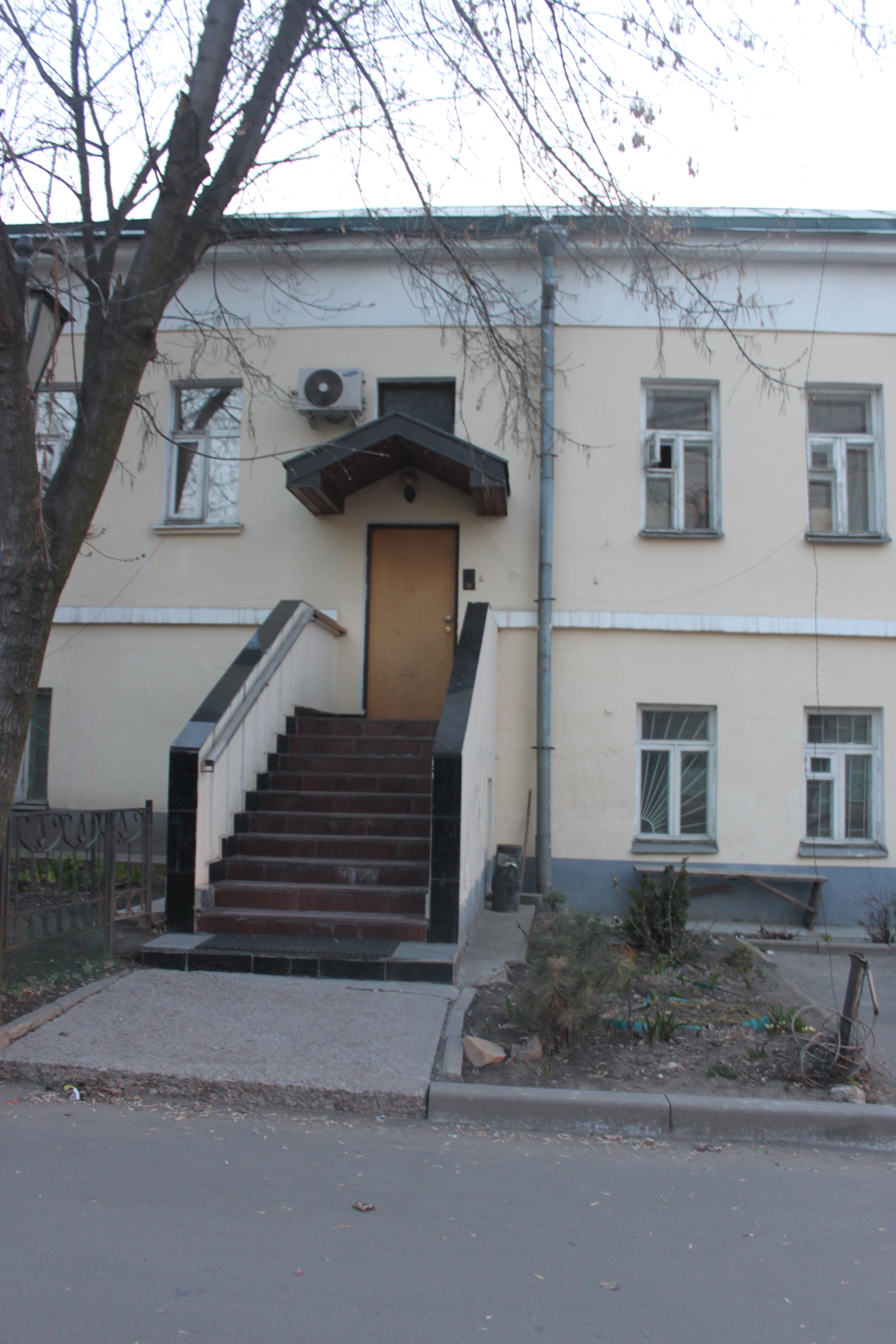 Nikoloyamskaya street.